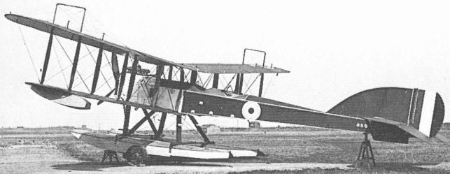 Photo of Wight Converted Seaplane samf4u.jpg